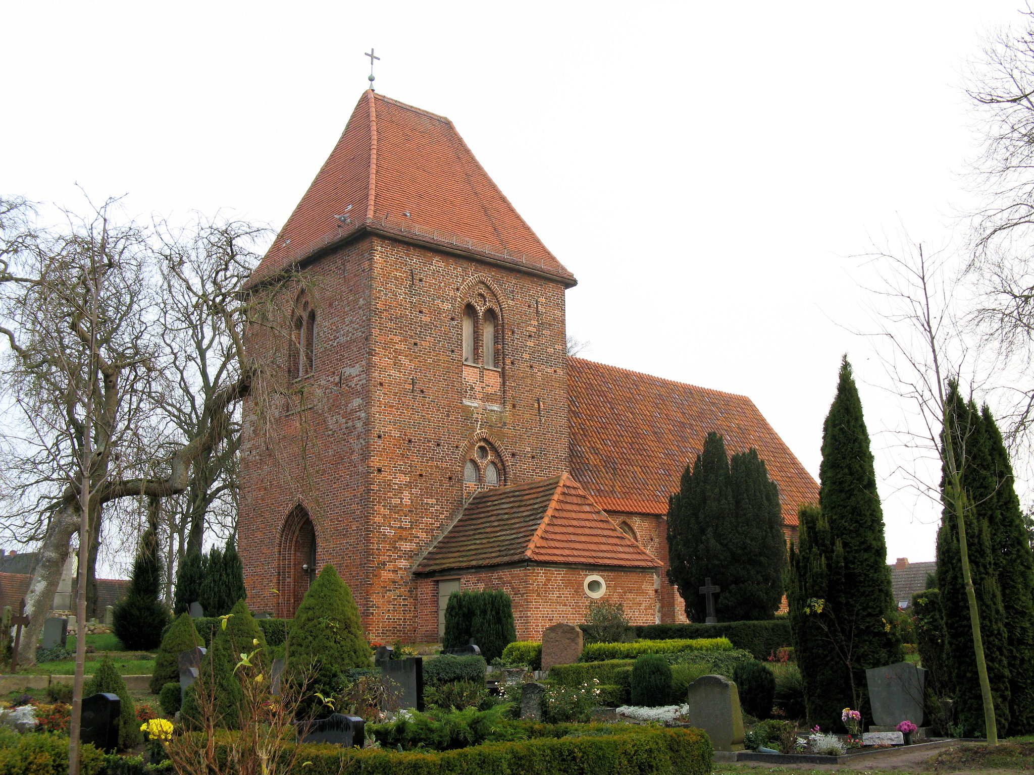 Church in Groß Brütz, district Nordwestmecklenburg, Mecklenburg-Vorpommern, Germany